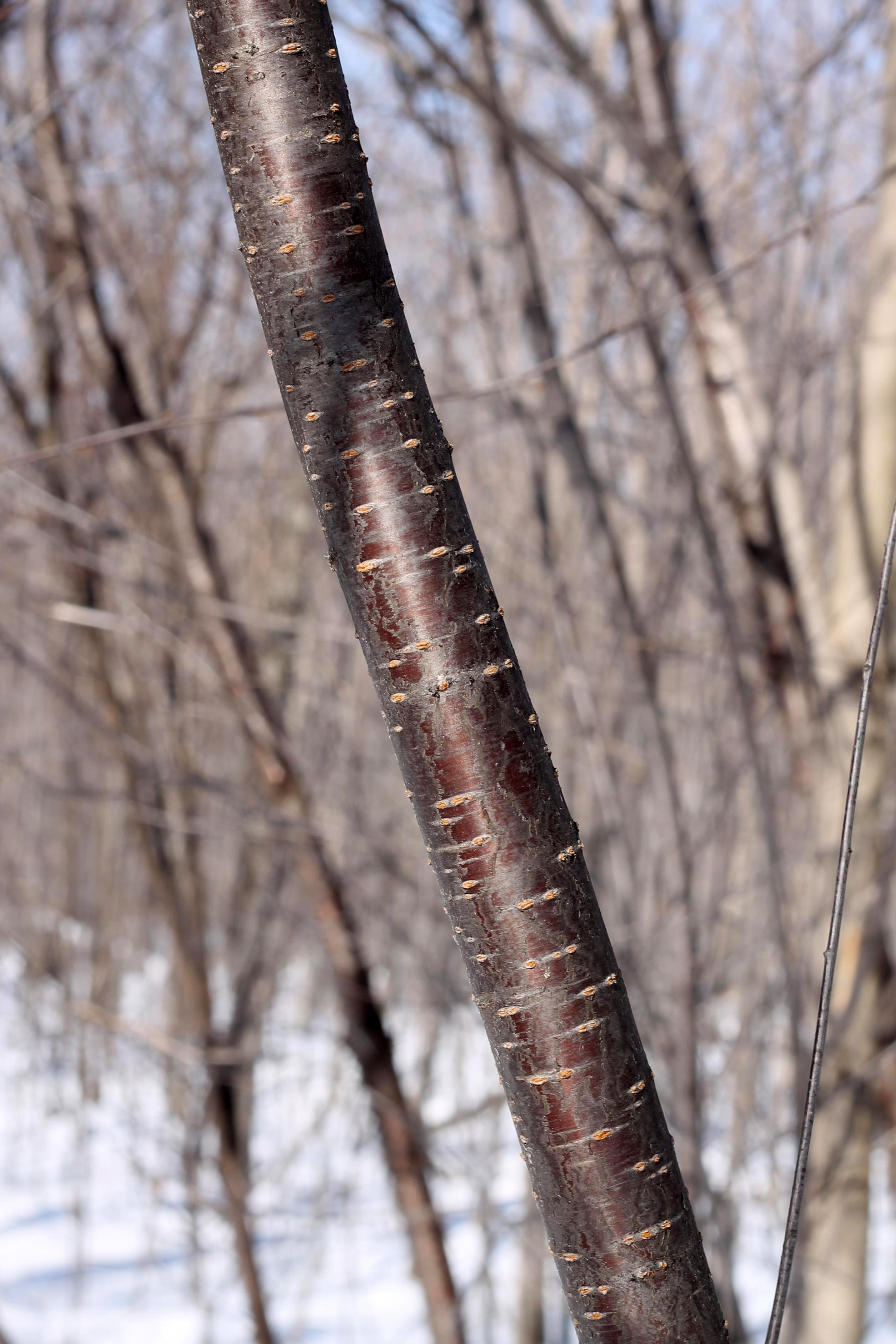 pin cherry (Prunus pensylvanica) L. f. - bark - Section 25, Dennis Twp. Sault Ste. Marie, Ontario, Canada